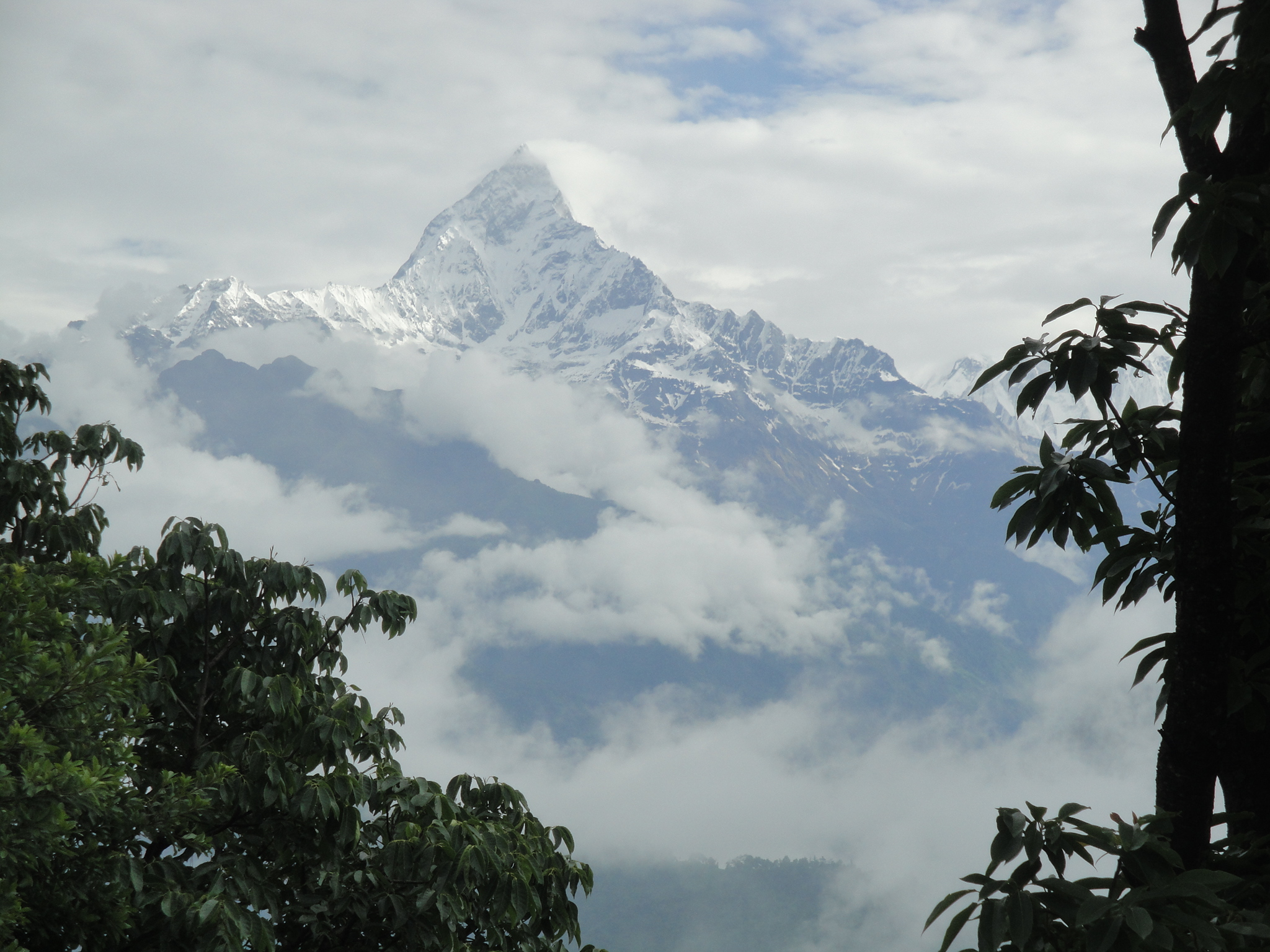 Fish Tail Mountain seen from Sarangkot